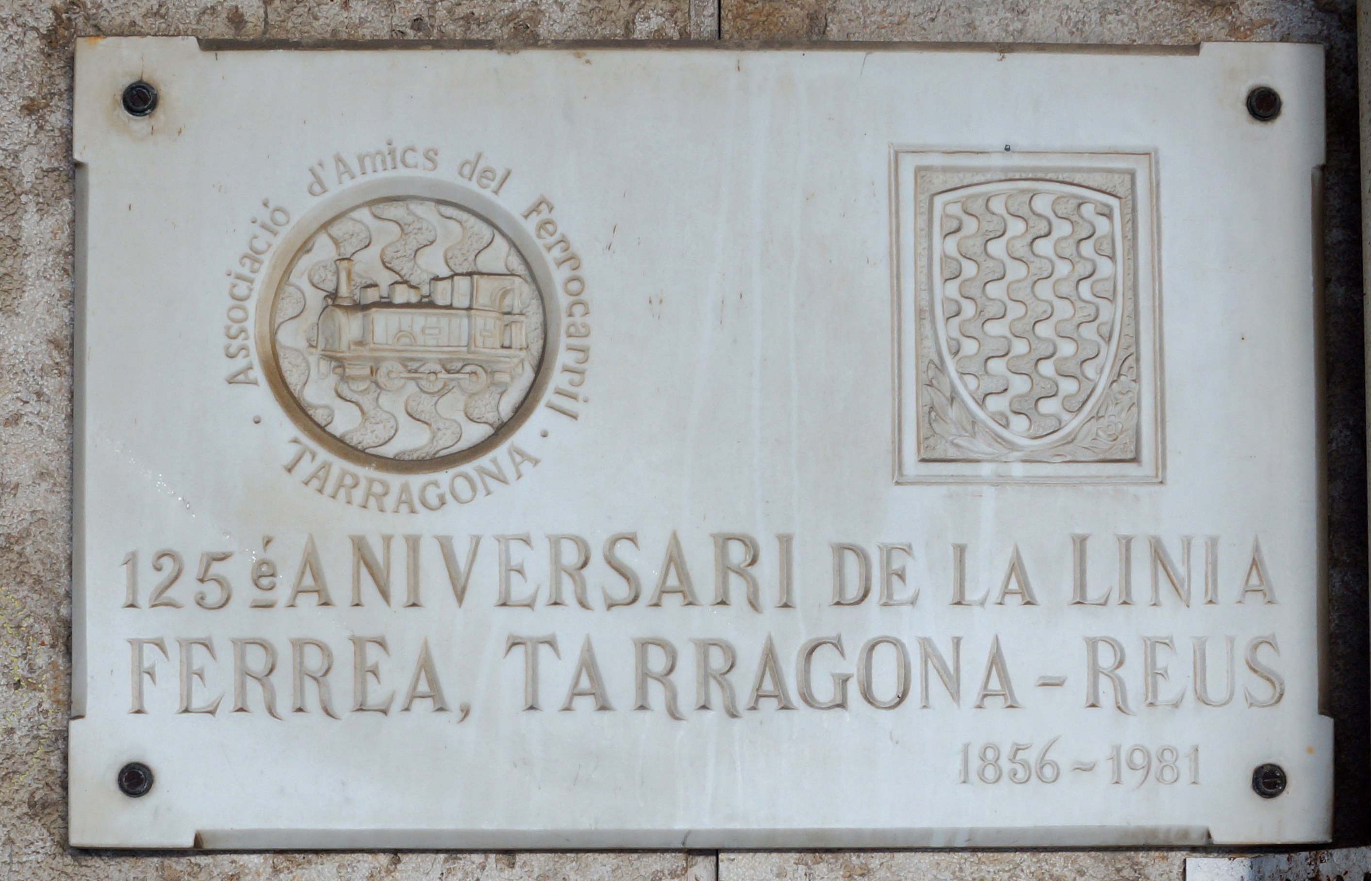 Tarragona, Catalonia: Plaque in the train station of Tarragona celebrating the 125 years of the line Tarragona-Reus in 1981